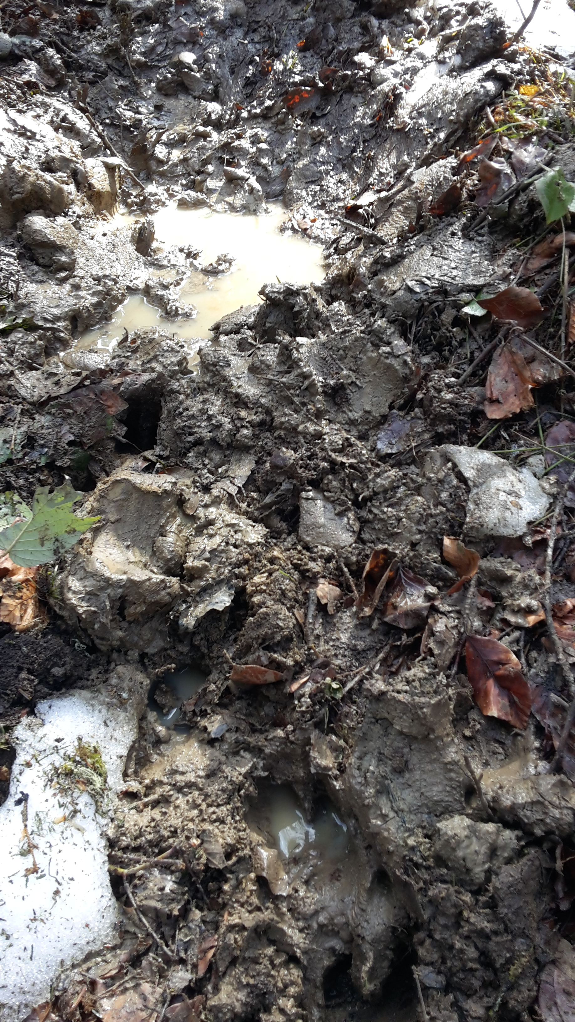 Wild boar wallow in Borjomi Kharagauli National Park near Likani